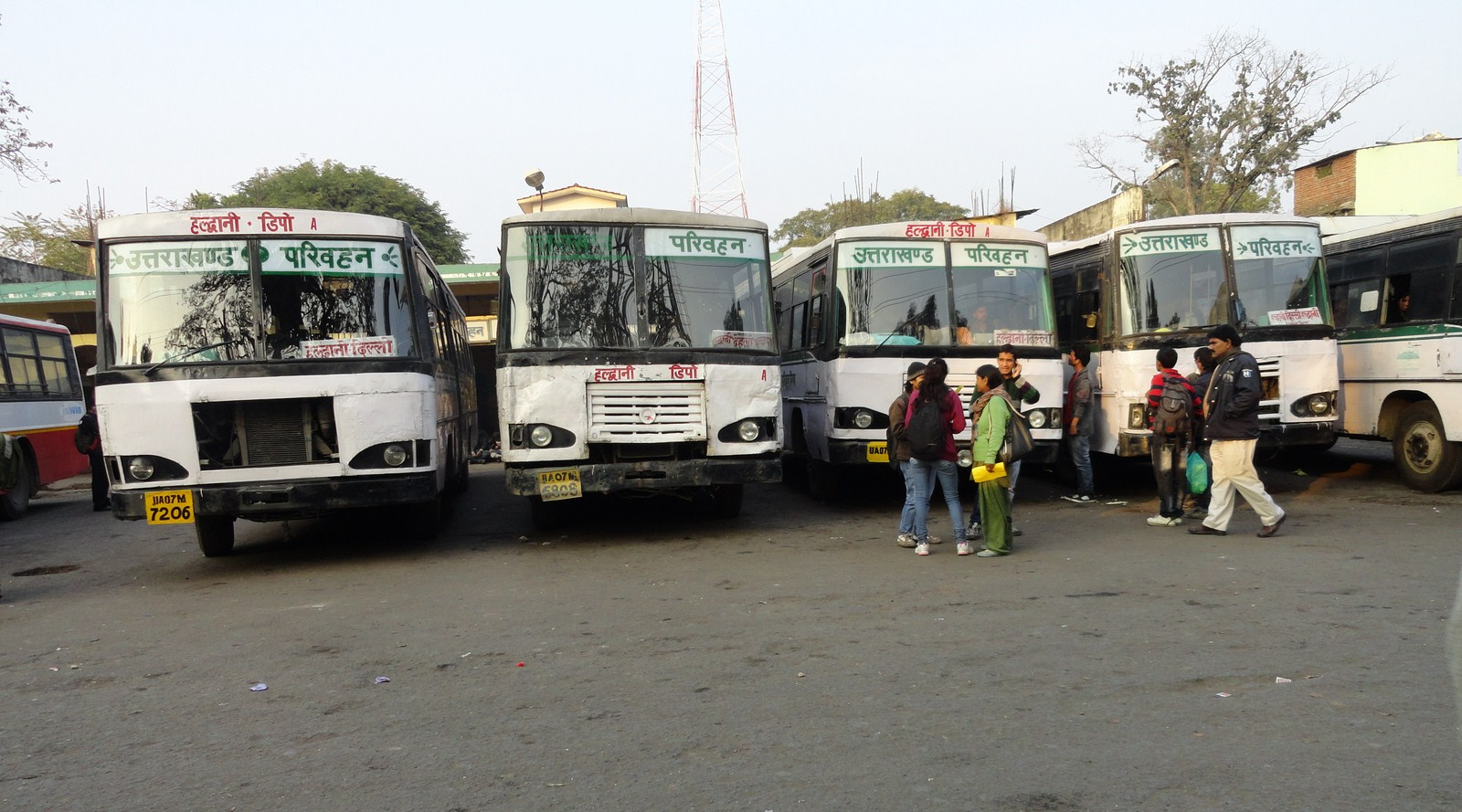 haldwani bus station